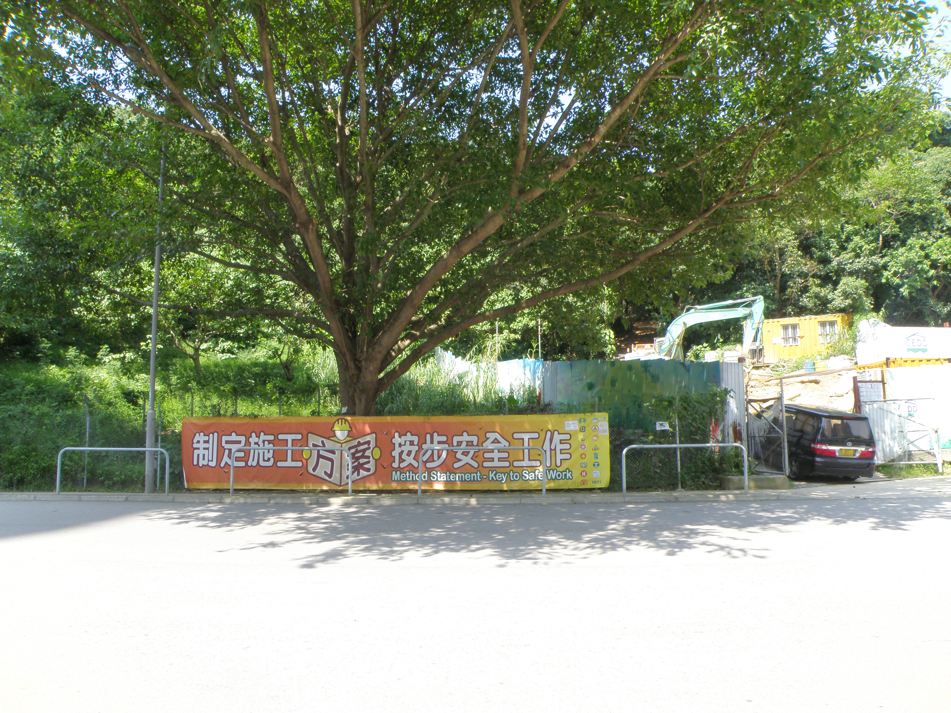 Fu Tip Estate in Tai Po, Hong Kong.